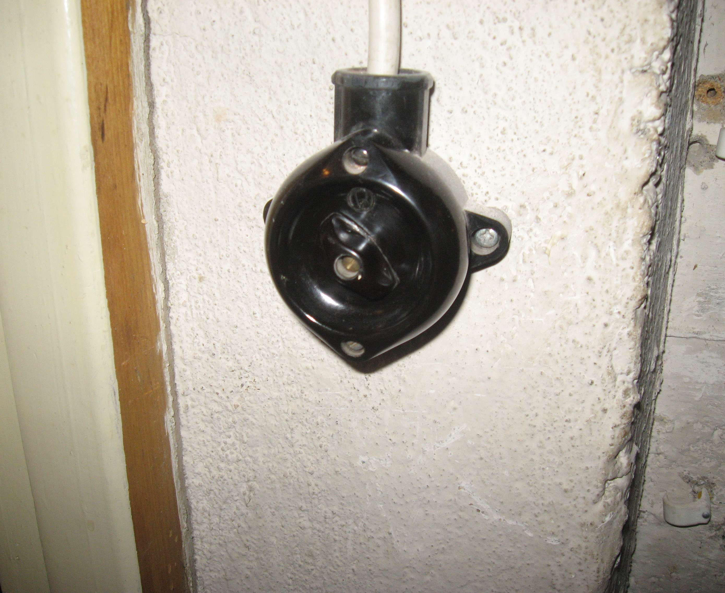 Older light switch